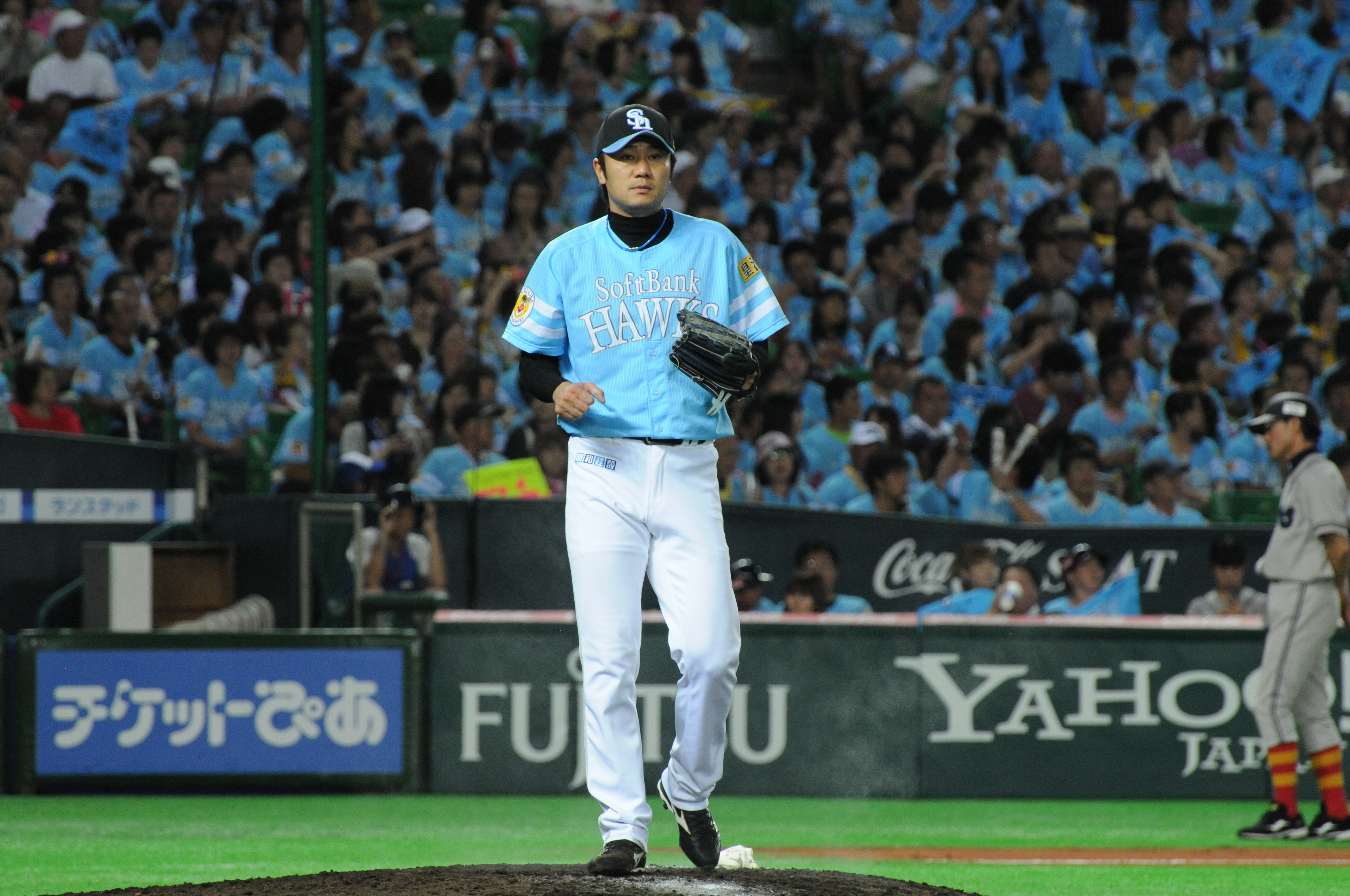 Takehito Kanazawa, pitcher of the Fukuoka SoftBank Hawks, at Fukuoka Dome.